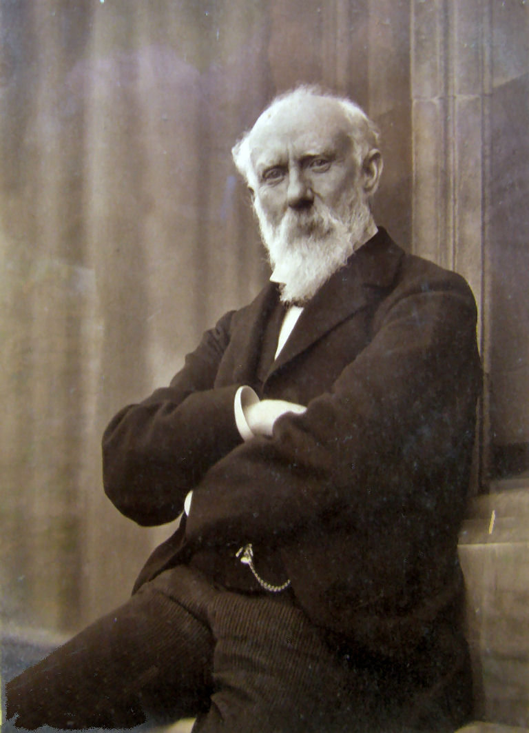 Portrait of Sir James Wainright